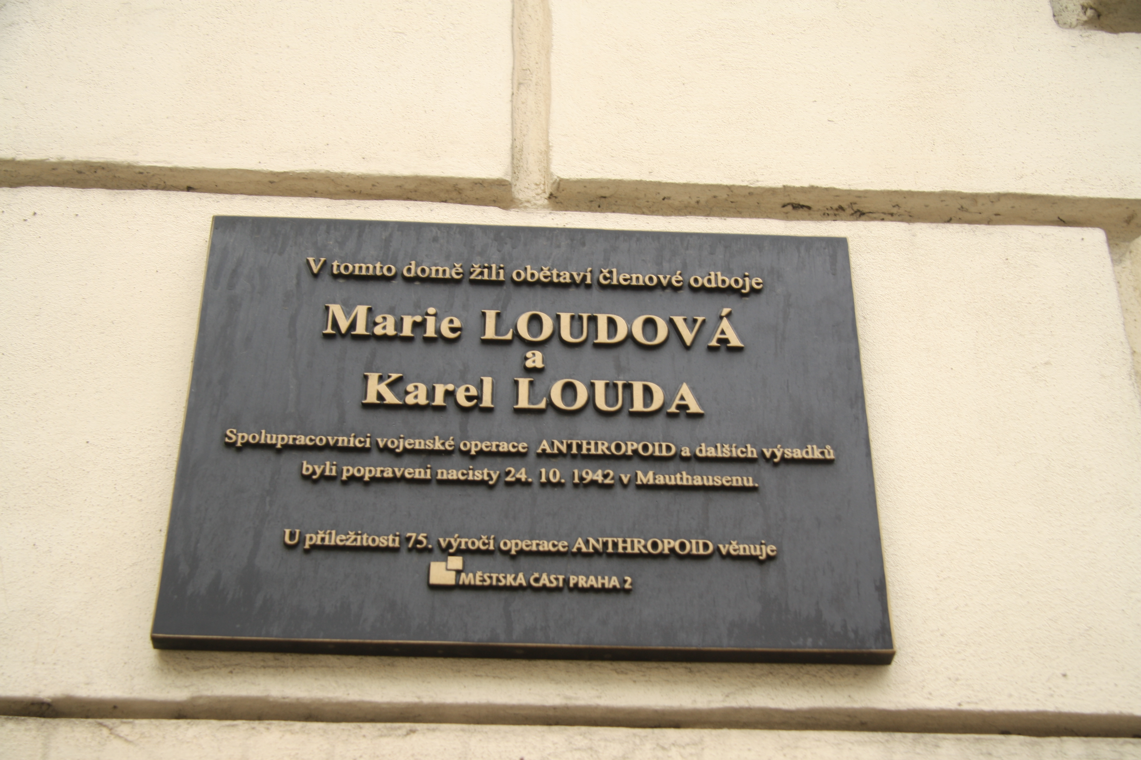 Plaque of Marie Loudová and Karel Louda at Resslova street in Nové Město, Prague.